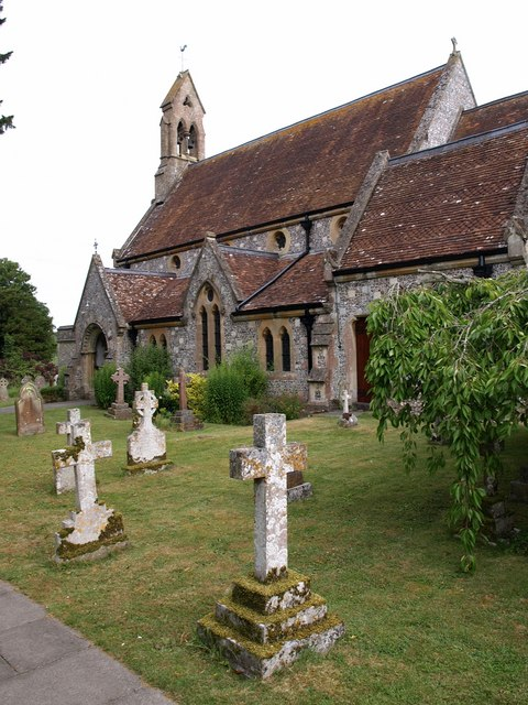 St Andrew's parish church, Laverstock, Wiltshire, seen from the southeast